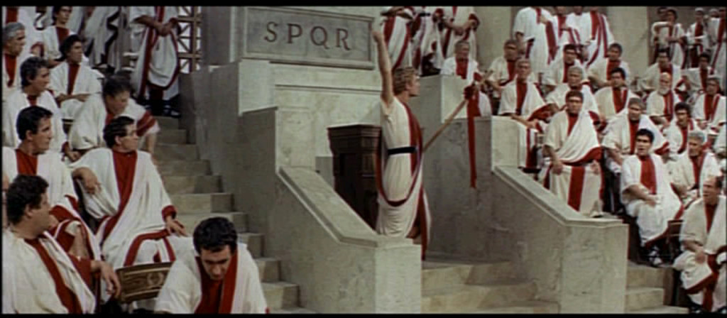 Screenshot from the trailer for the film Cleopatra.